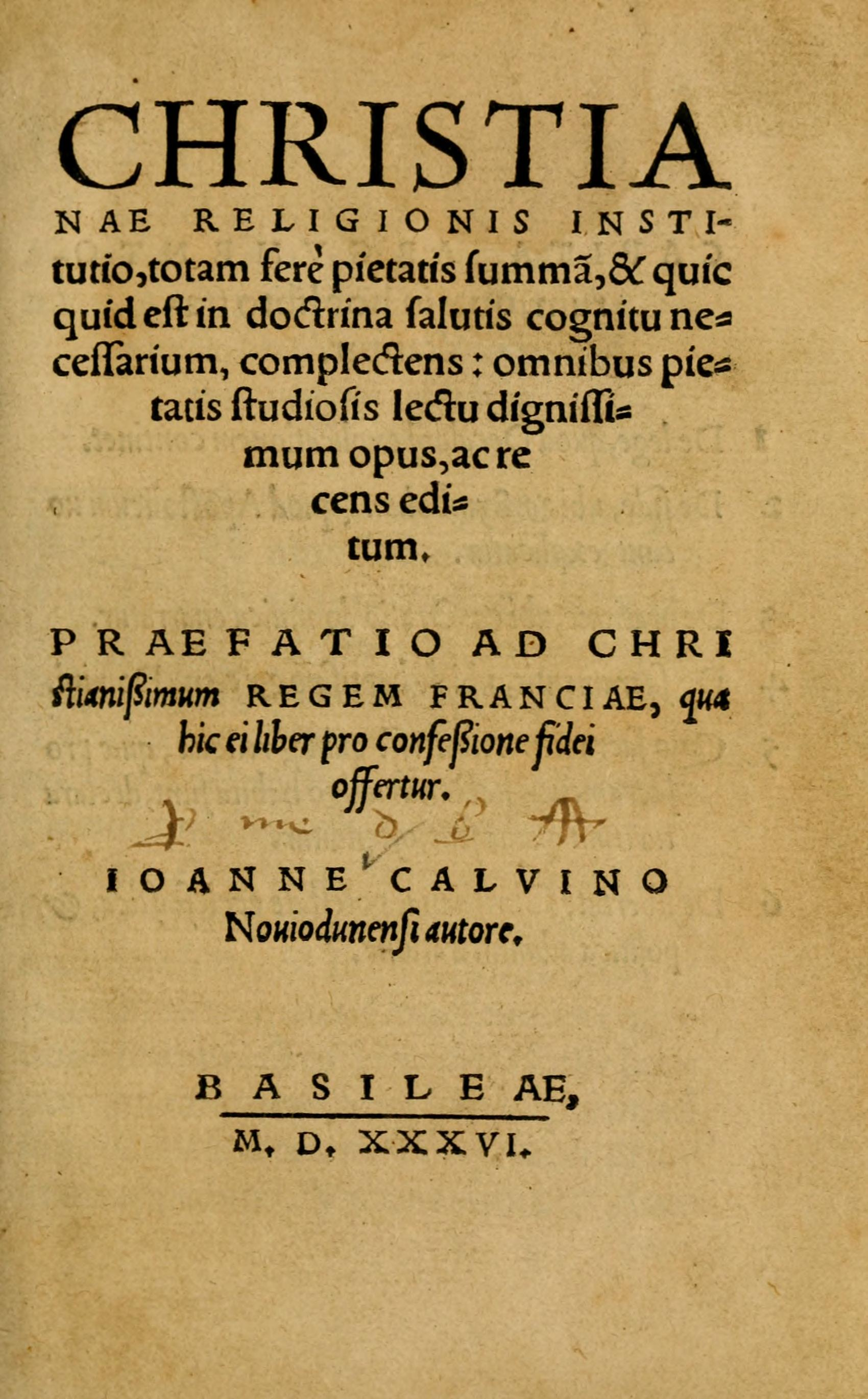 Title page of 1536 Christianae religionis institutio